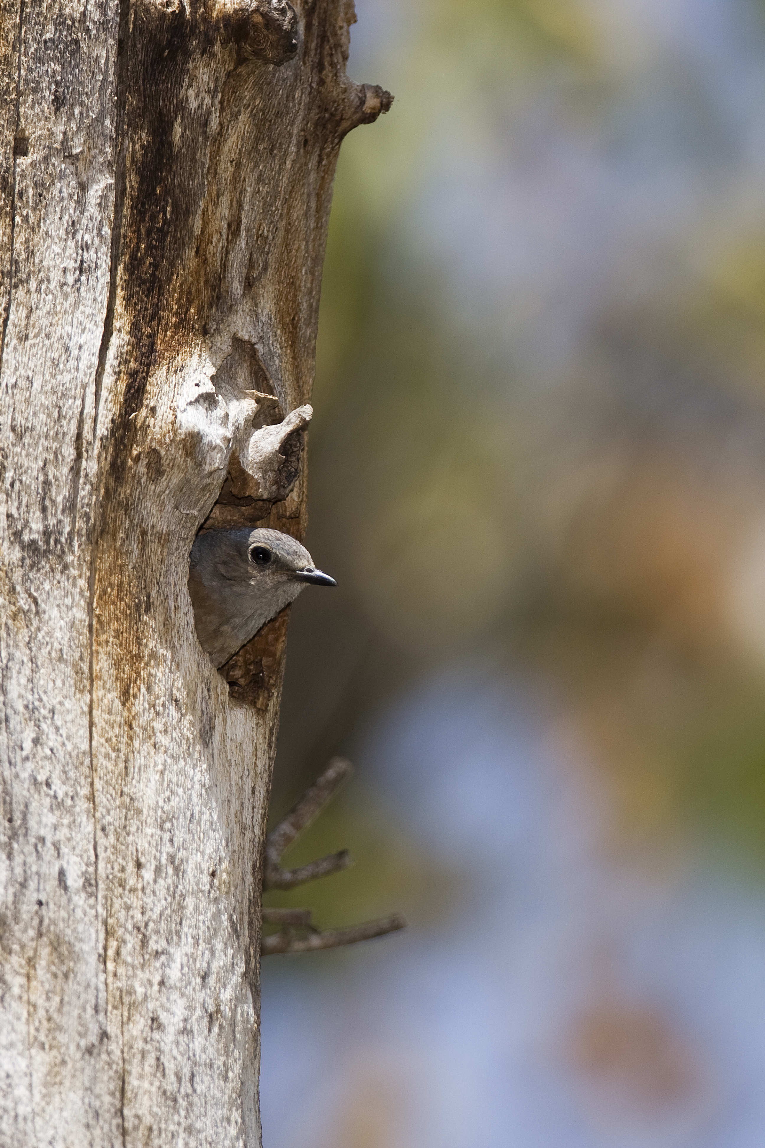 Western Bluebird nesting in an abandoned Nuttlle's Woodpecker nest in a dead tree.